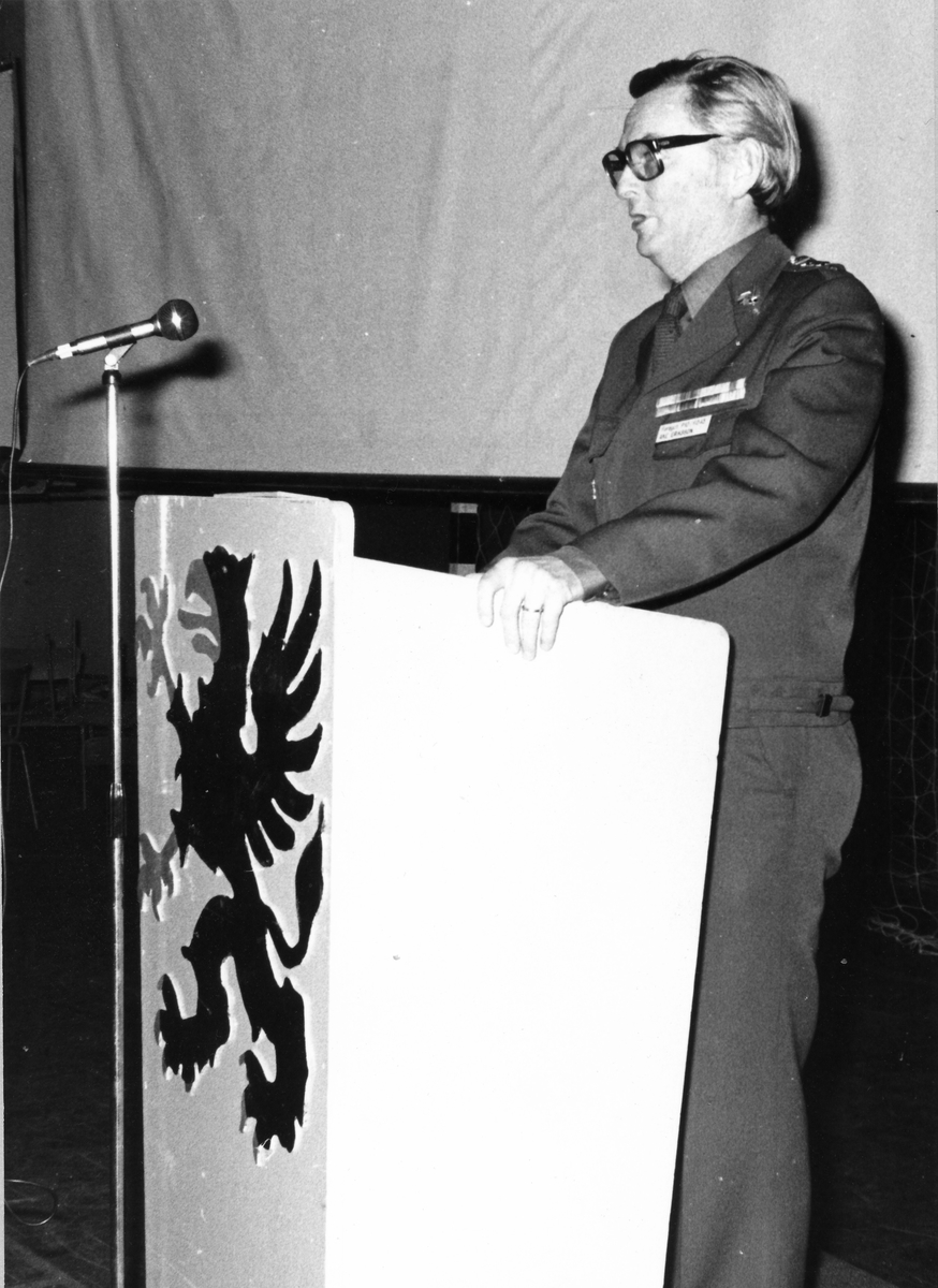 Information in the gymnasium, in the rostrum Colonel 1st Class Åke Eriksson, for the first time "eye to eye" with all employees at Södermanland Regiment (P 10) in Strängnäs.